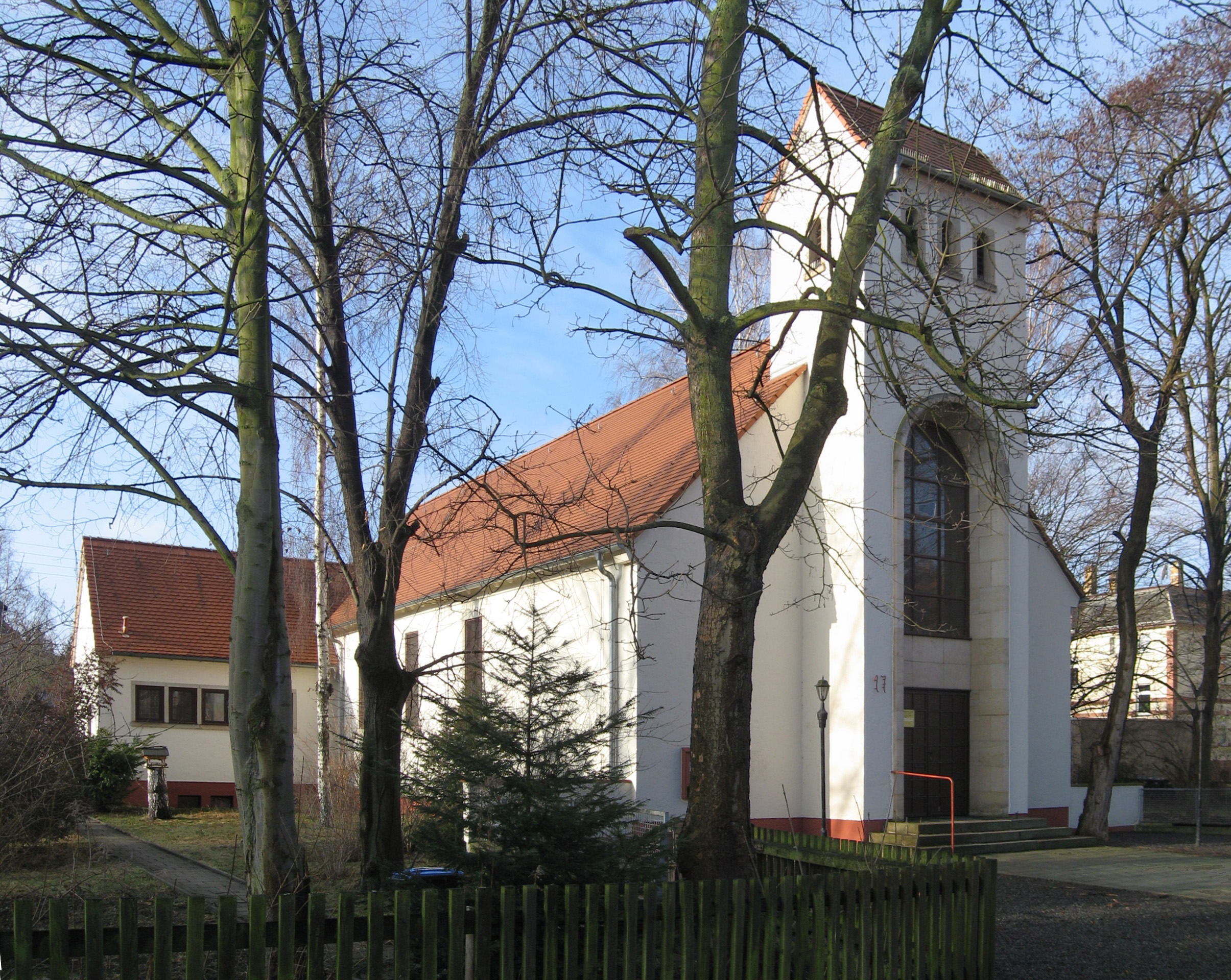 St. Hedwig Church in Boehlitz-Ehrenberg, Pestalozzistrasse 17